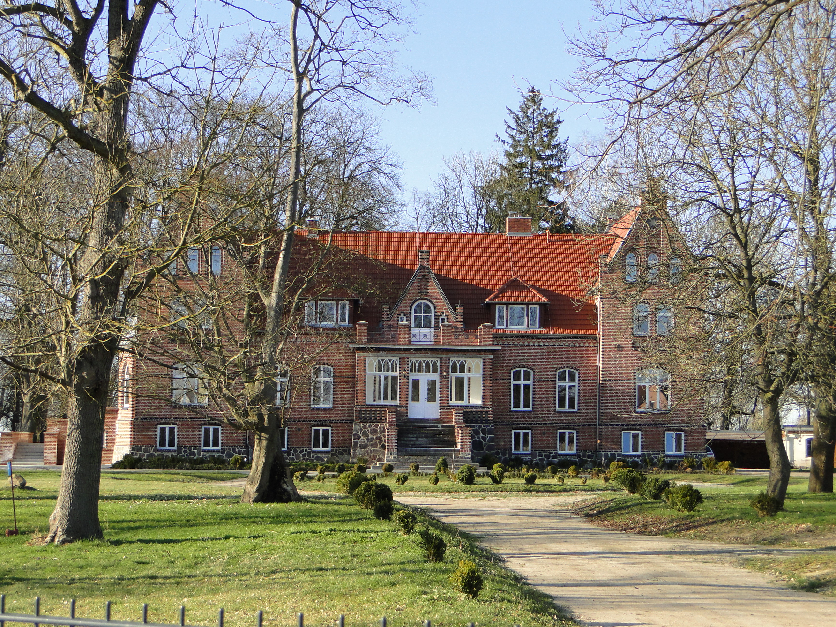 Manor house in Severin, district Ludwigslust-Parchim, Mecklenburg-Vorpommern, Germany